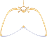 Thorax deformed by lung compromise (caudal view). Inverted type deformation